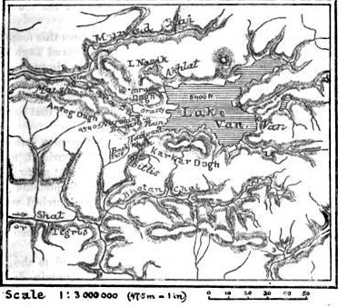 Historical map of Lake Van area, XIX cent.